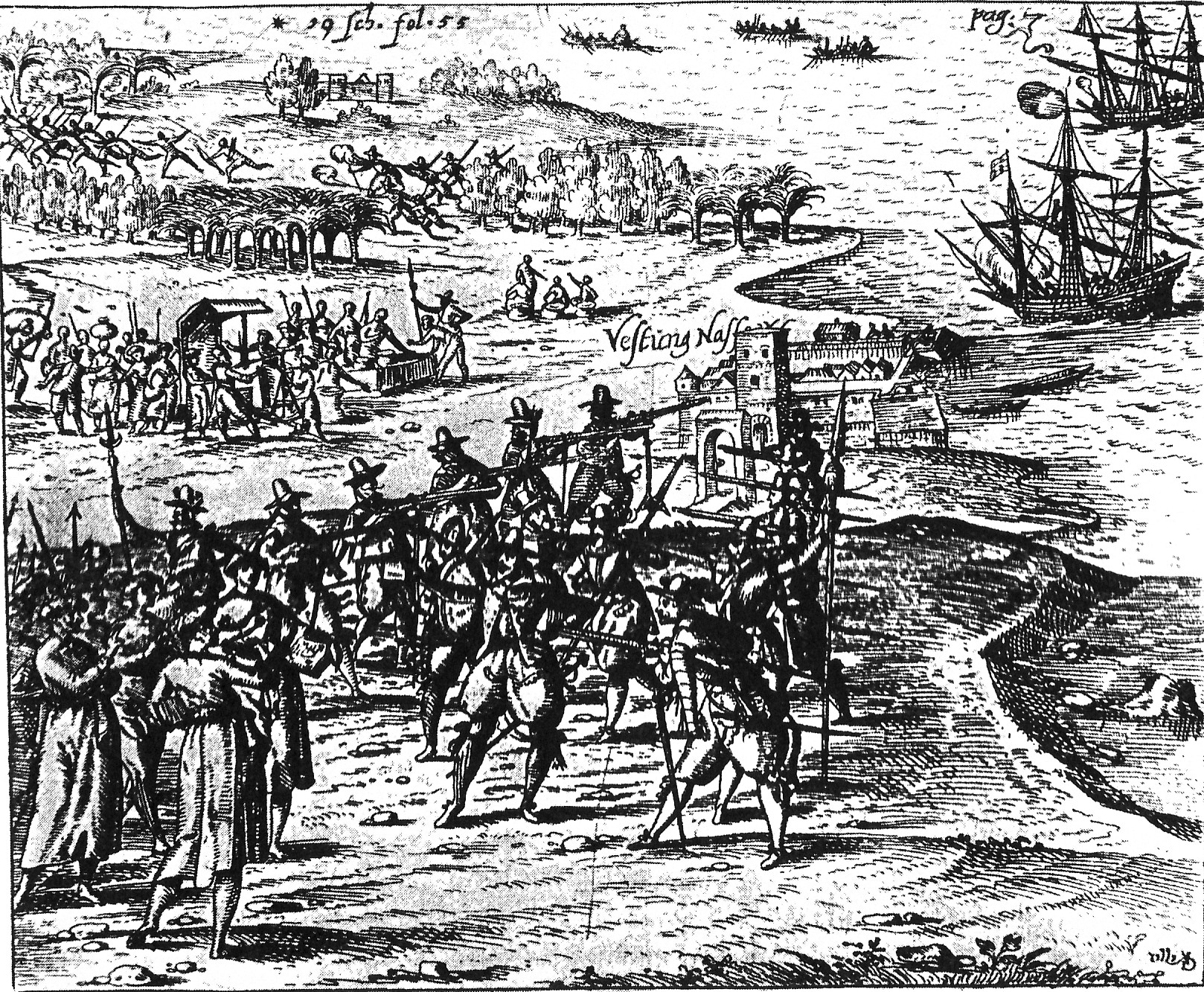 Portuguese and Dutchmen are themselves hostile to the Gold Coast. Fortress Nassau (Mouri) was from 1612 to the local main base of the Dutchman. Yet, there is a peaceful trading takes place with the locals in addition to military actions. Off the coast there will be sea battles between Portugal and Holland ships.